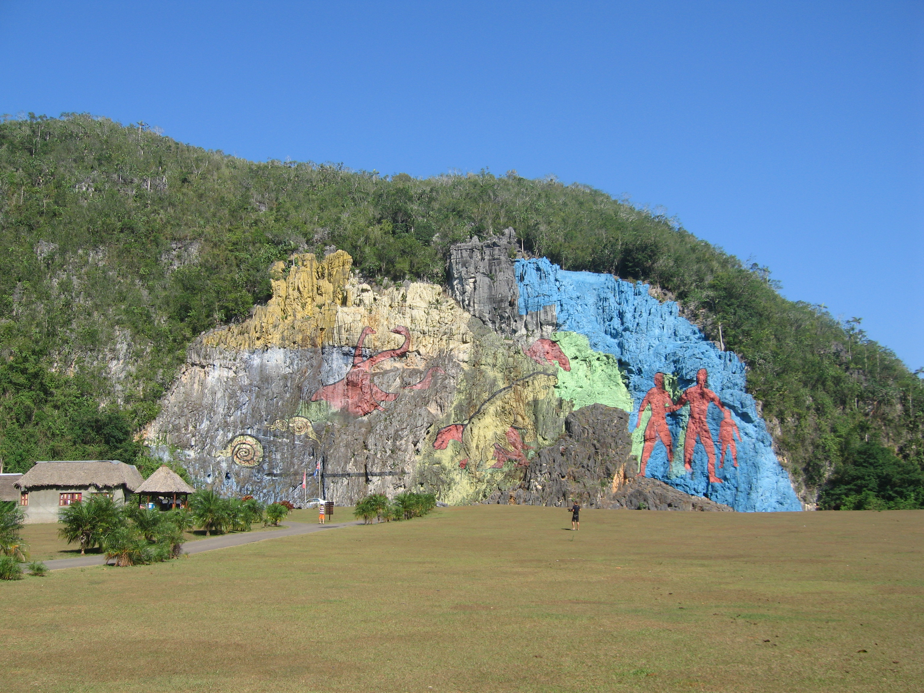 Mural in Vinales, Cuba